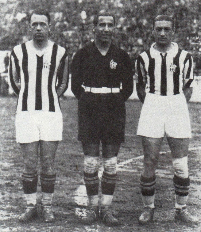 From left to right: right-back Virginio Rosetta, goalkeeper Gianpiero Combi and left-back Umberto Caligaris, the F.B.C. Juventus' defensive wall — known in Italy as the Trio dei ragionieri ("Accountants' Trio") — between 1920s and 1930s.